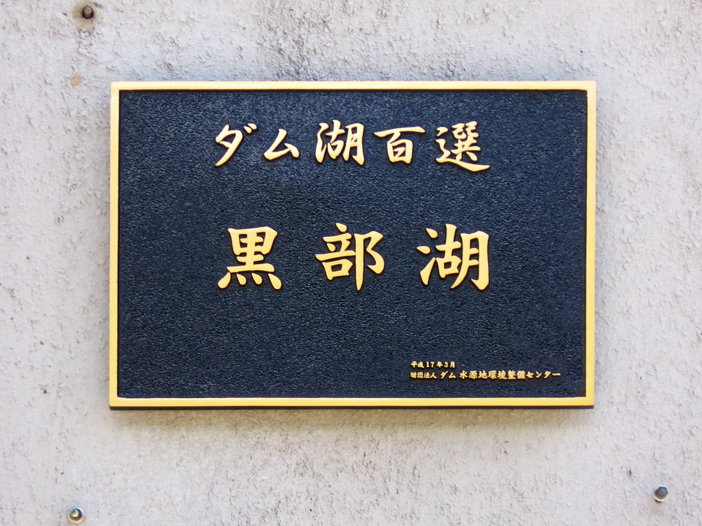 Plaque of Selected 100 Dam Lakes, Lake Kurobe